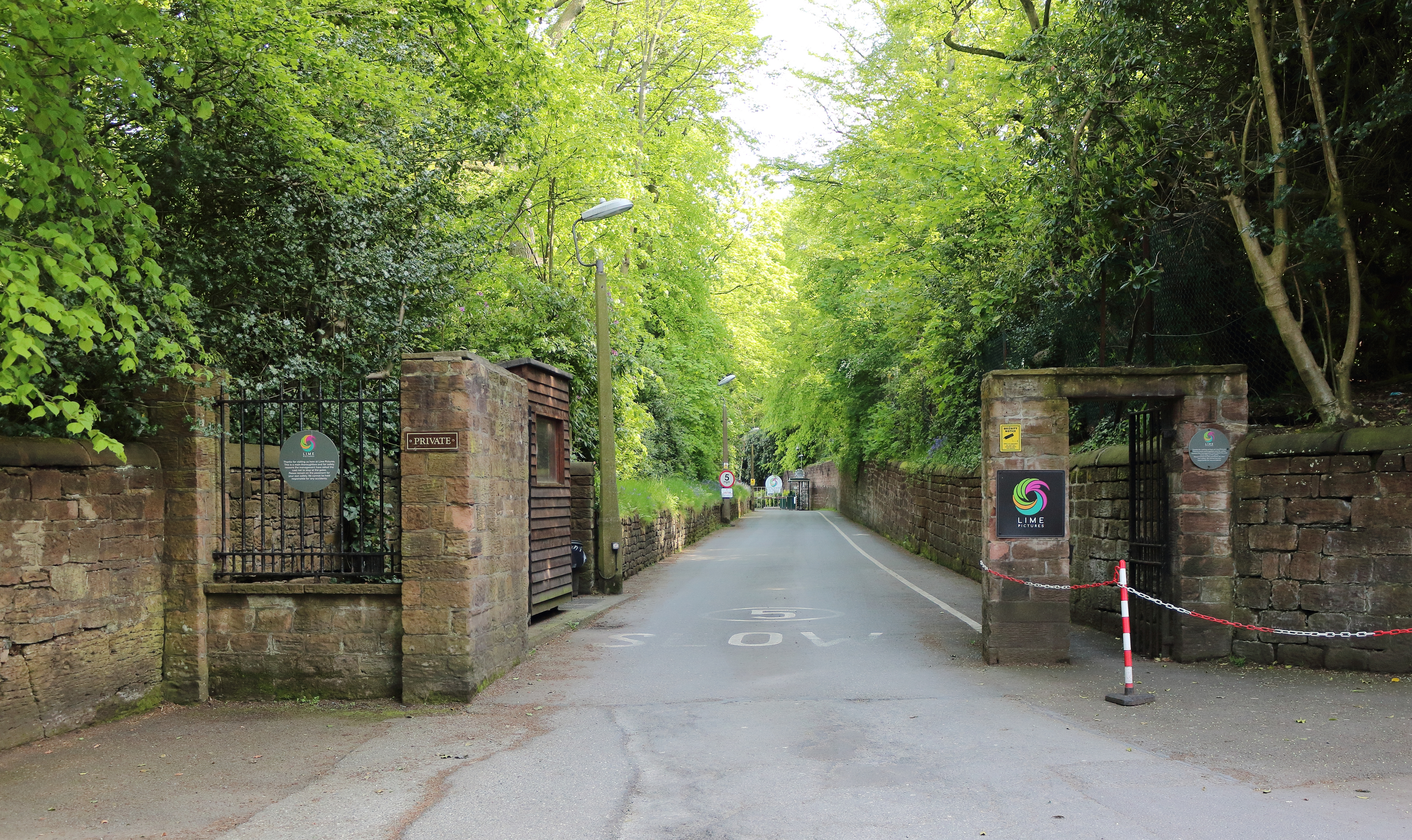 Entrance on Childwall Abbey Road, Liverpool to Lime Pictures, the studios responsible for Brookside, some of Grange Hill, and Hollyoaks. There's usually a gaggle of fans here hoping to catch a glimpse of their favourite stars.